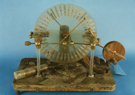 Wimshurst's electrostatic machine before renovation